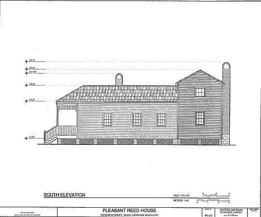 Drawing of Pleasant Reed House, Biloxi, Harrison County, Mississippi USA